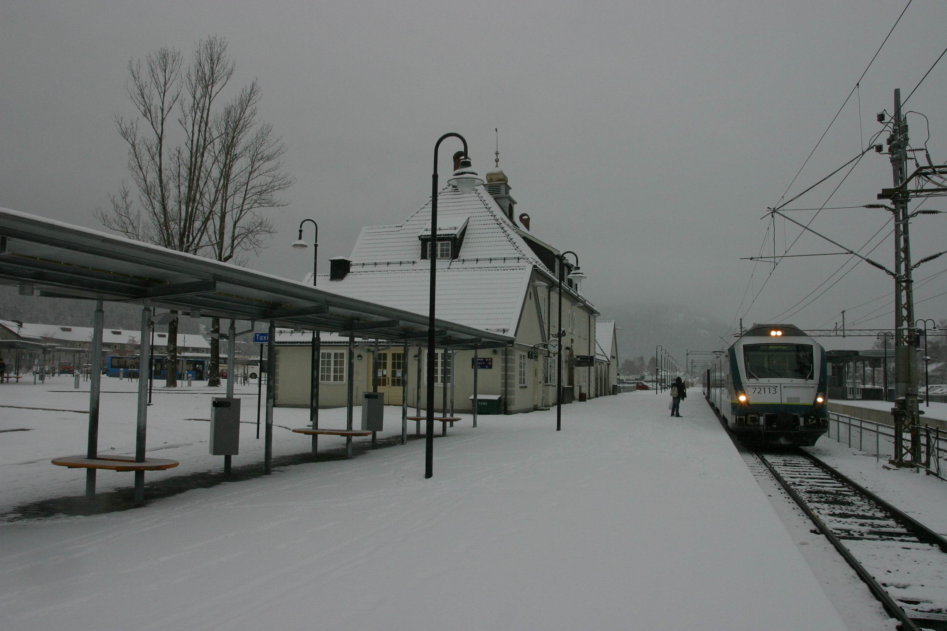 Picture of Kongsberg railway station (Norway)